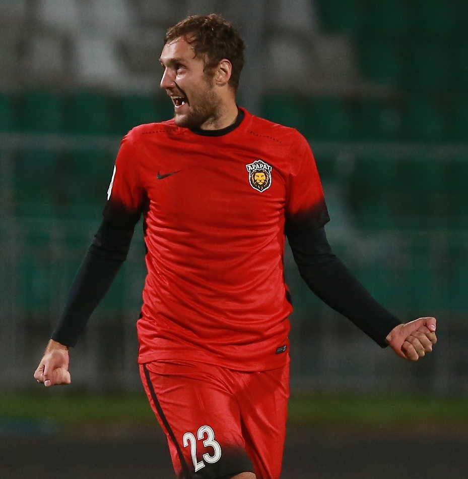 Viktor Zemchenkov with FC Ararat Moscow in a Russian Cup game against FC SKA-Khabarovsk.